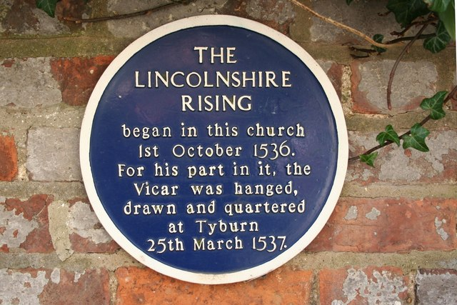 Lincolnshire Rising plaque Blue plaque by St.James' church commemorating the Lincolnshire Rising or 'Pilgrimage of Grace' protests against the establishment of the Church of England and dissolution of the monasteries - brutally suppressed by King Henry VIII.